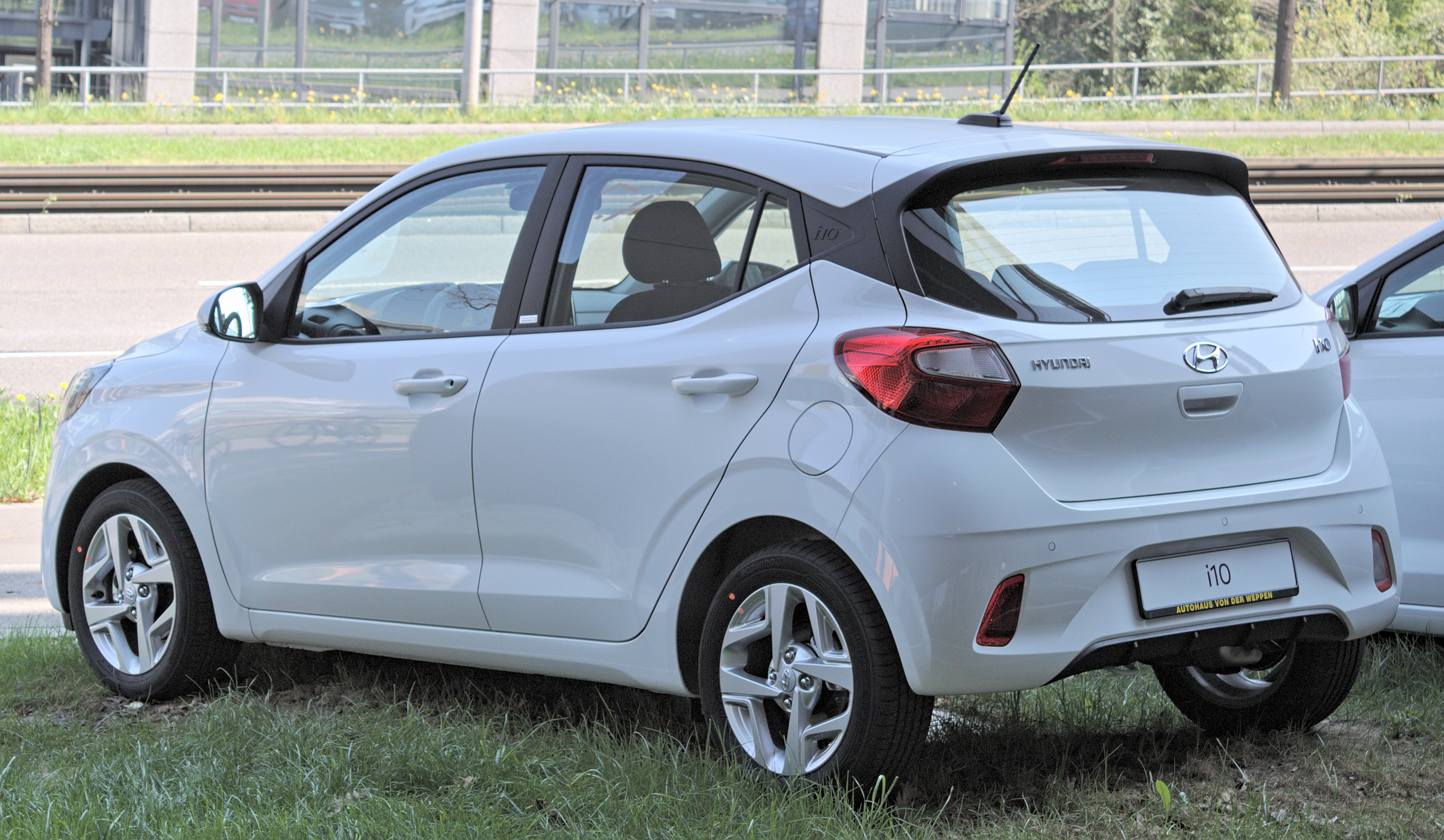 Hyundai_i10_(LA) in Stuttgart